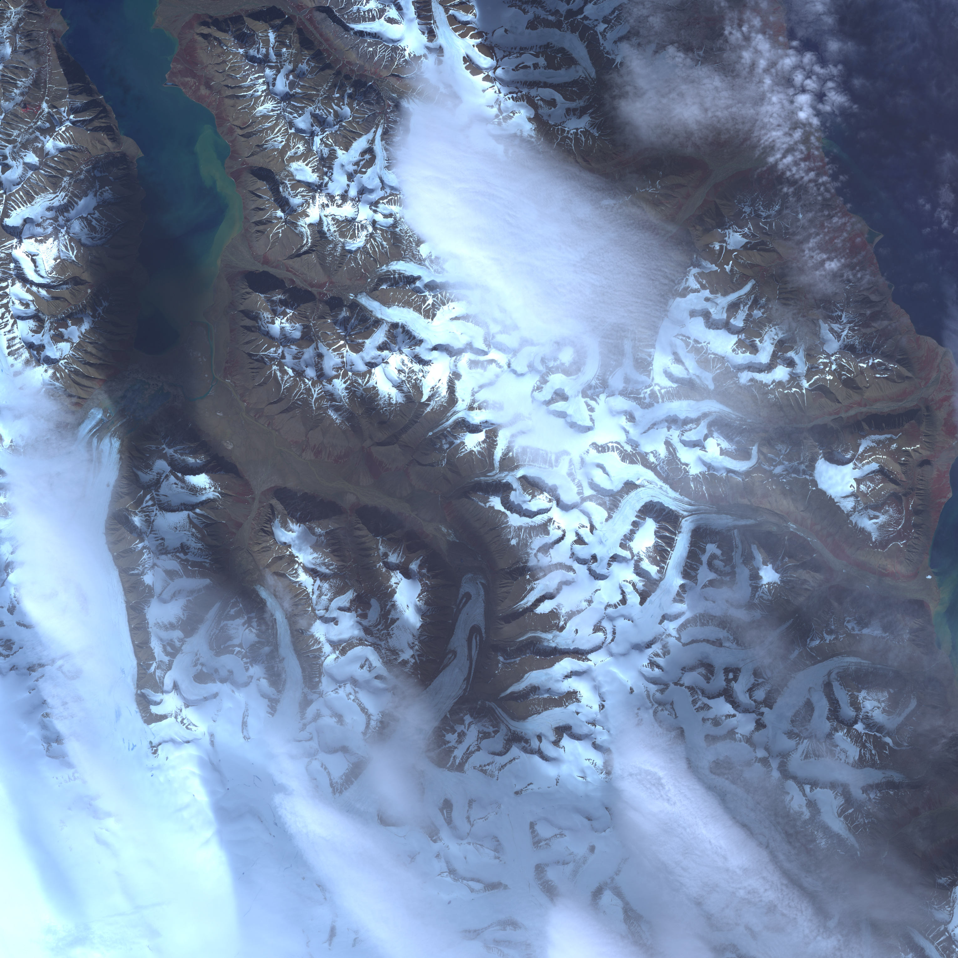 Wijdefjorden on Spitsbergen, Svalbard, Norway. The mountains in the middle are the highlands of Andrée Land.